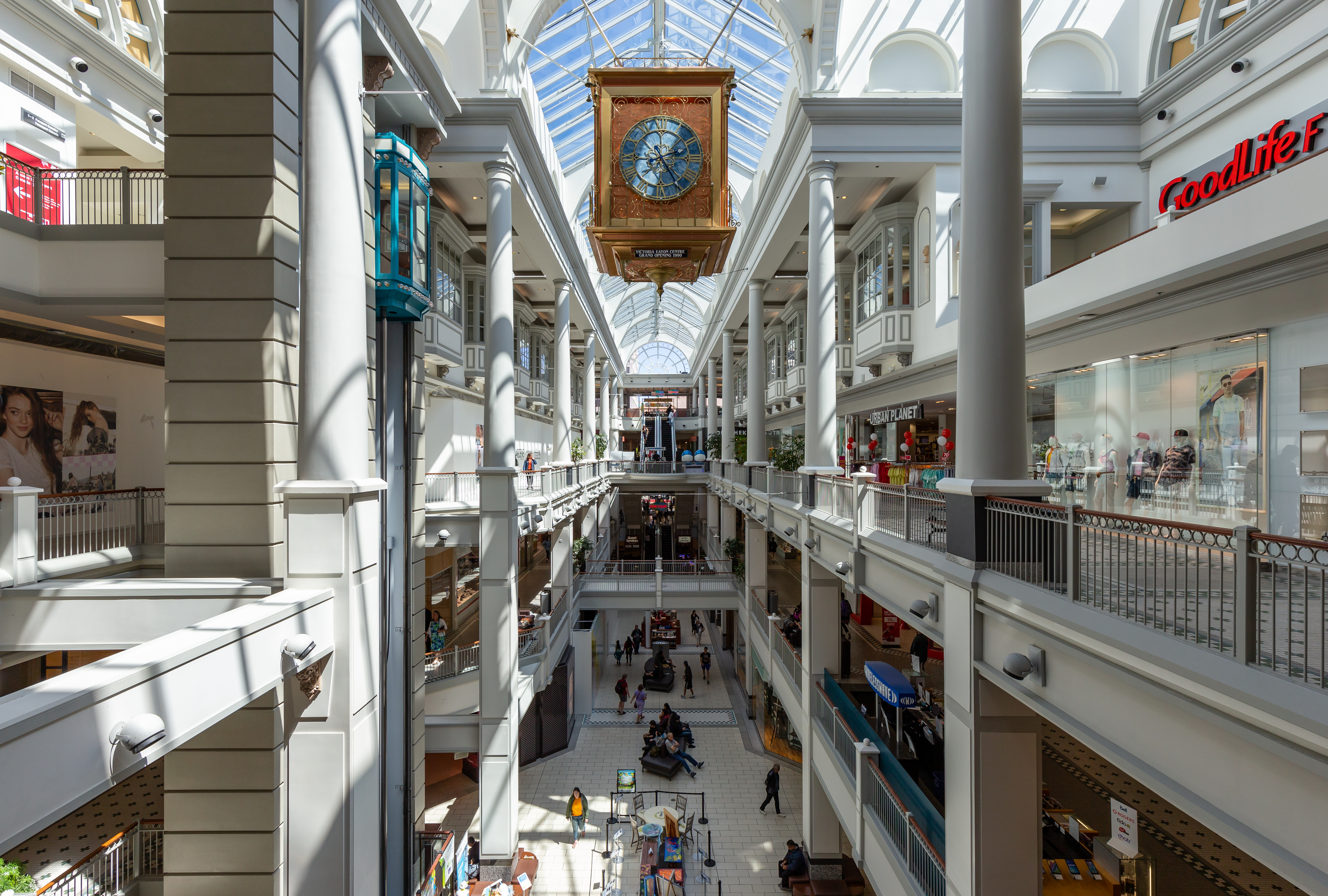 The Bay Centre - interior, Victoria, British Columbia, Canada